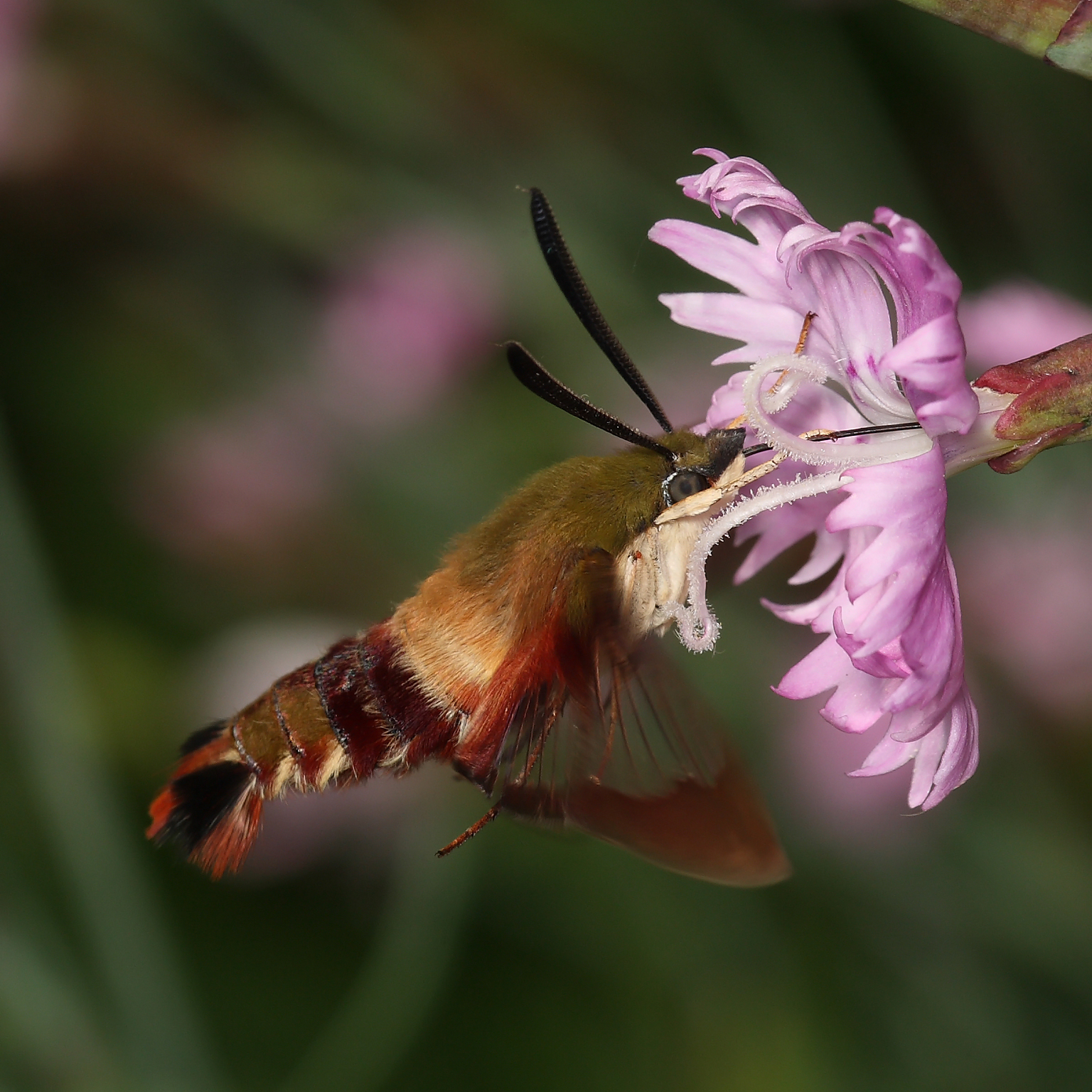 Hummingbird Clearwing -- near Dyers Bay, Ontario, Canada -- 2008 June